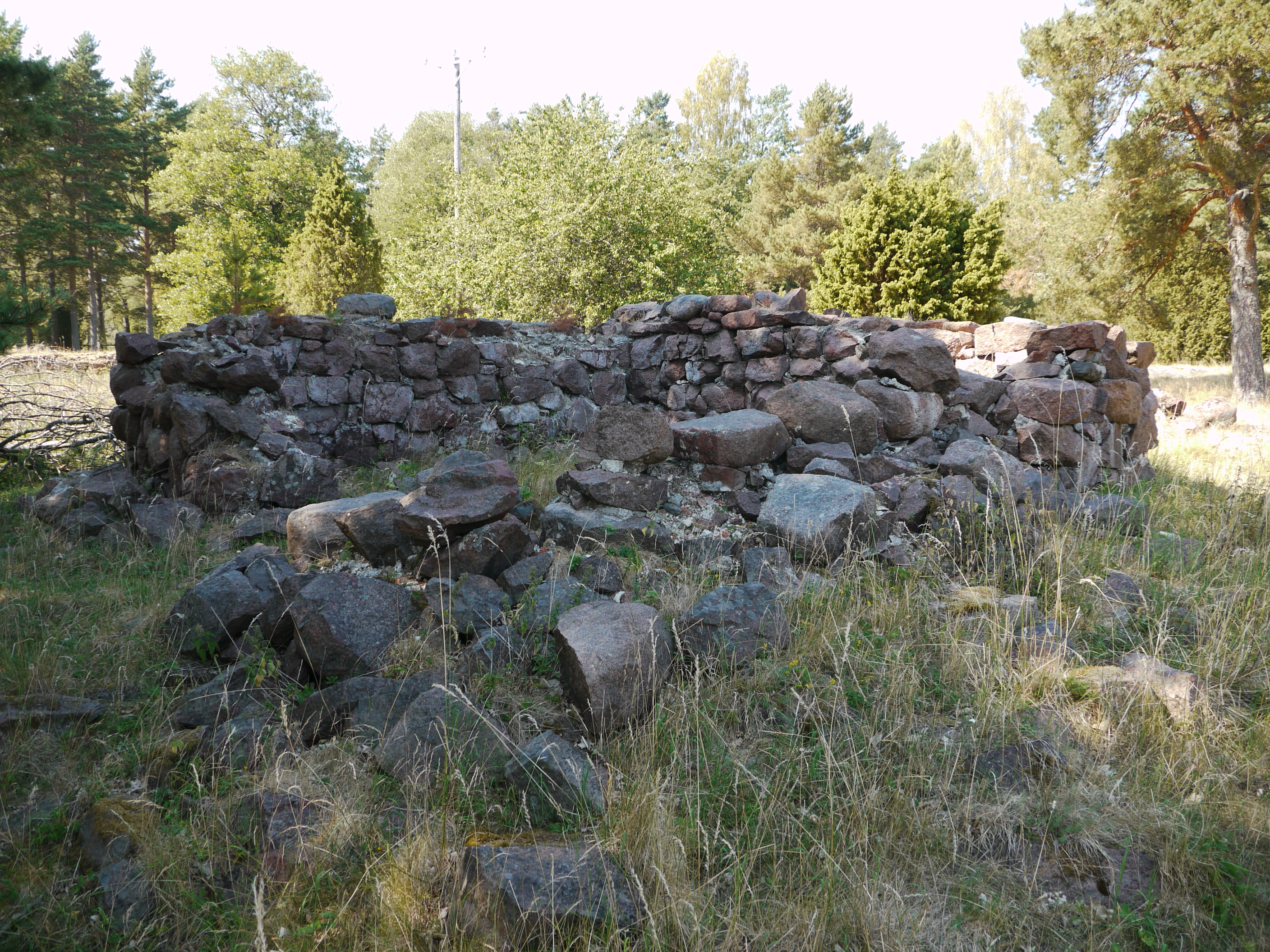 One of many ruins of the village Nya Skarpans in Bomarsund, Åland. This village was destroyed by the Russian owners, several days before the battle of Bomarsund. It has never been rebuilt.